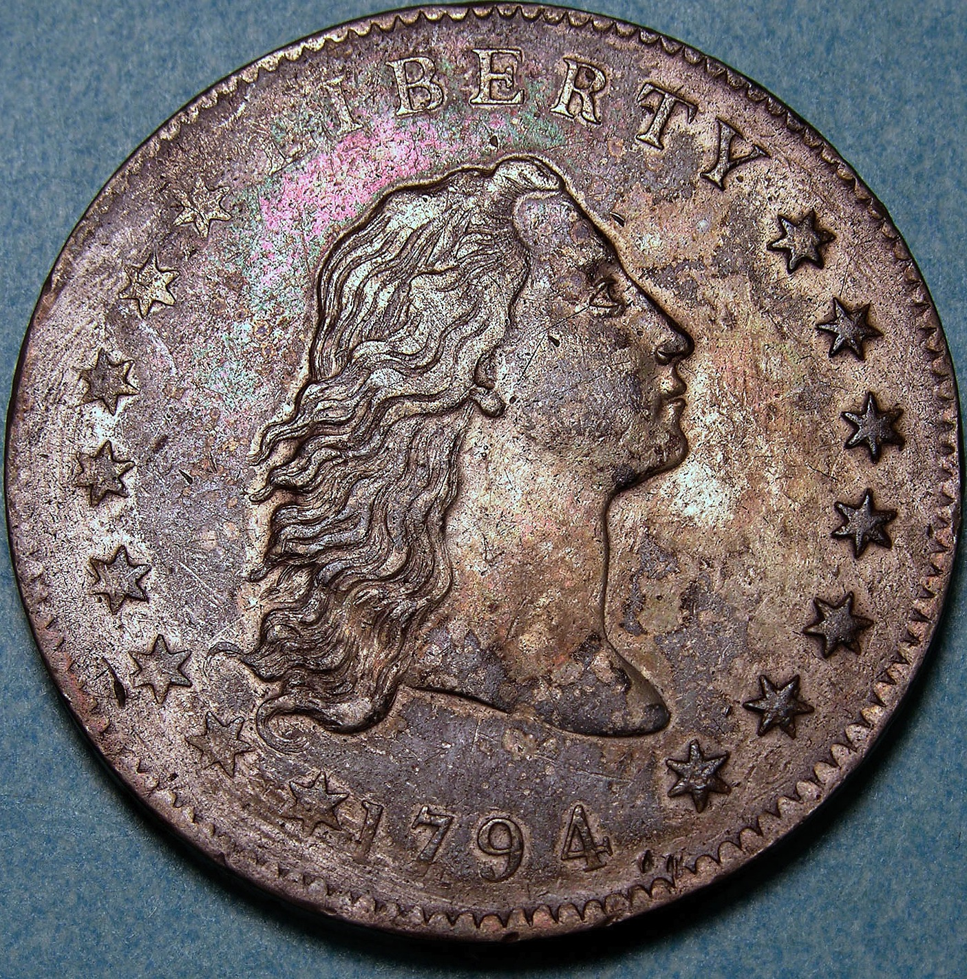 Obverse illustration of a Flowing Hair dollar